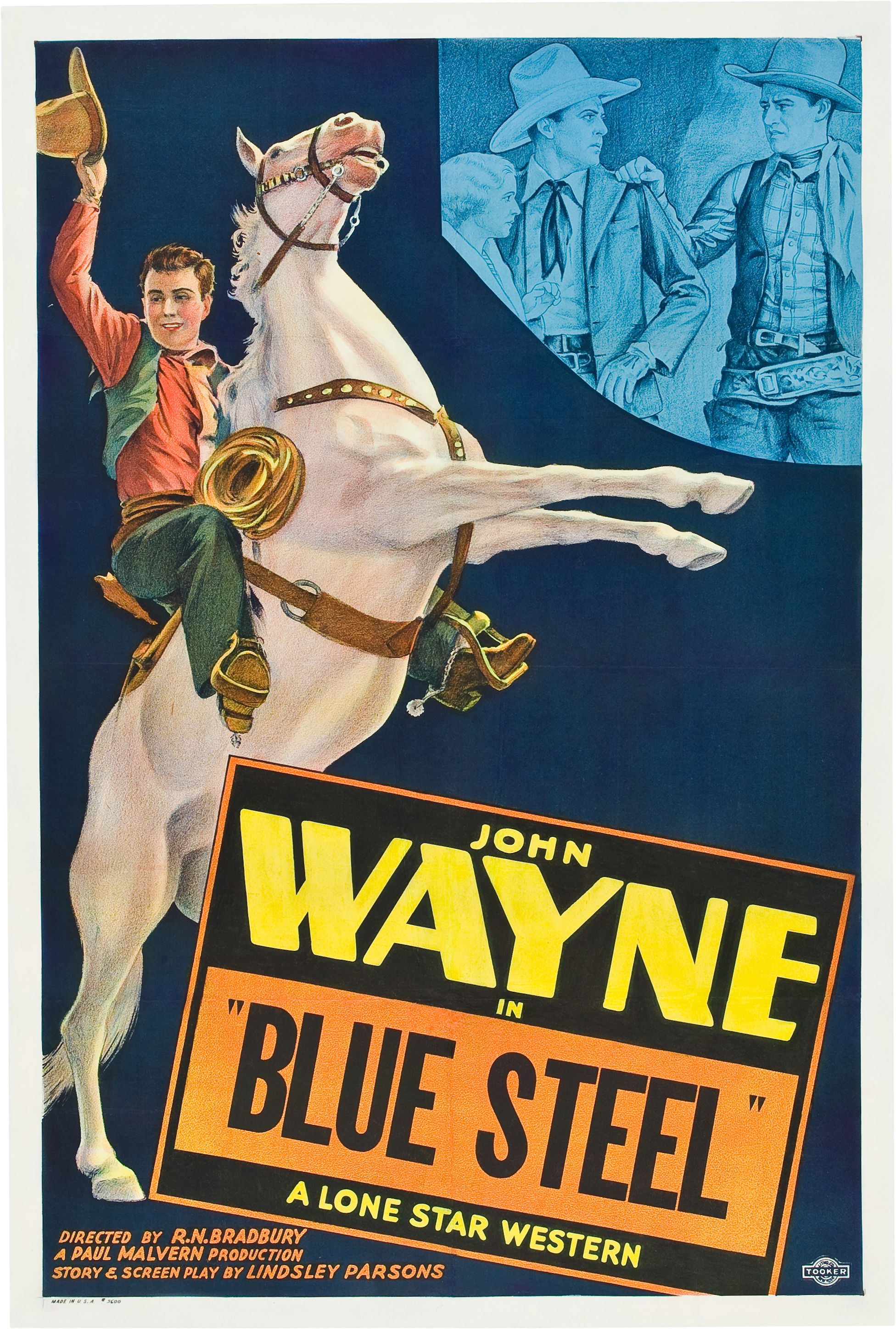 Poster for the 1934 film Blue Steel. The item has no copyright markings on it as can be seen in the links above. At bottom left is Made in USA #3600. At bottom right is a logo for Tooker Litho Co., NY-they printed the poster.